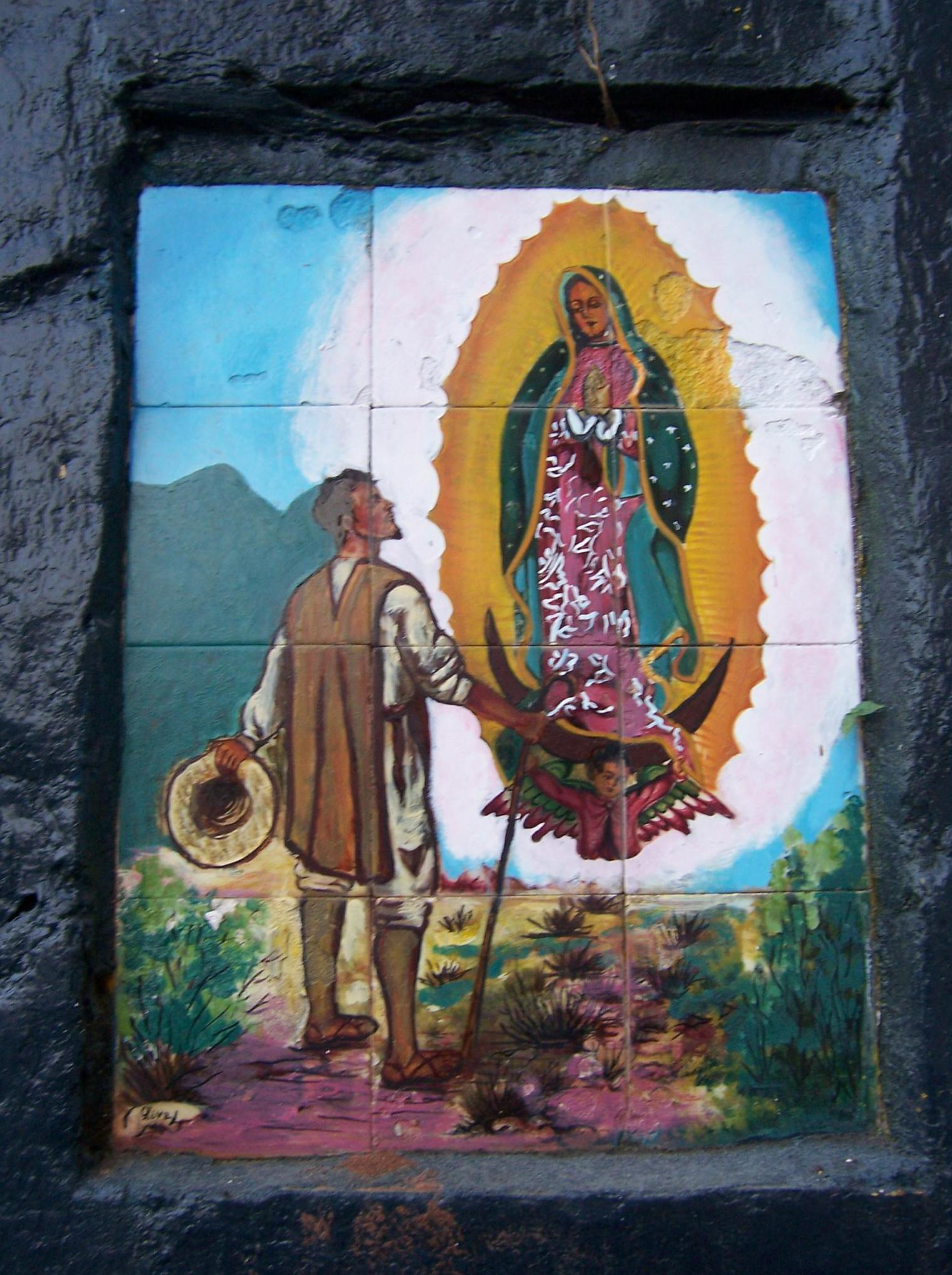 Christ the King Church, Tres Valles, Veracruz, Mexico : Our Lady of Guadalupe